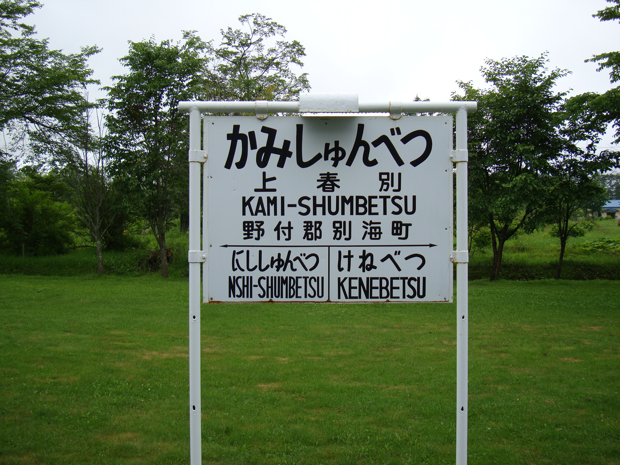 Kami-shumbetsu Station Running in board on Bekkai railway Memorial park. Disused train stations on Shibetsu Line.